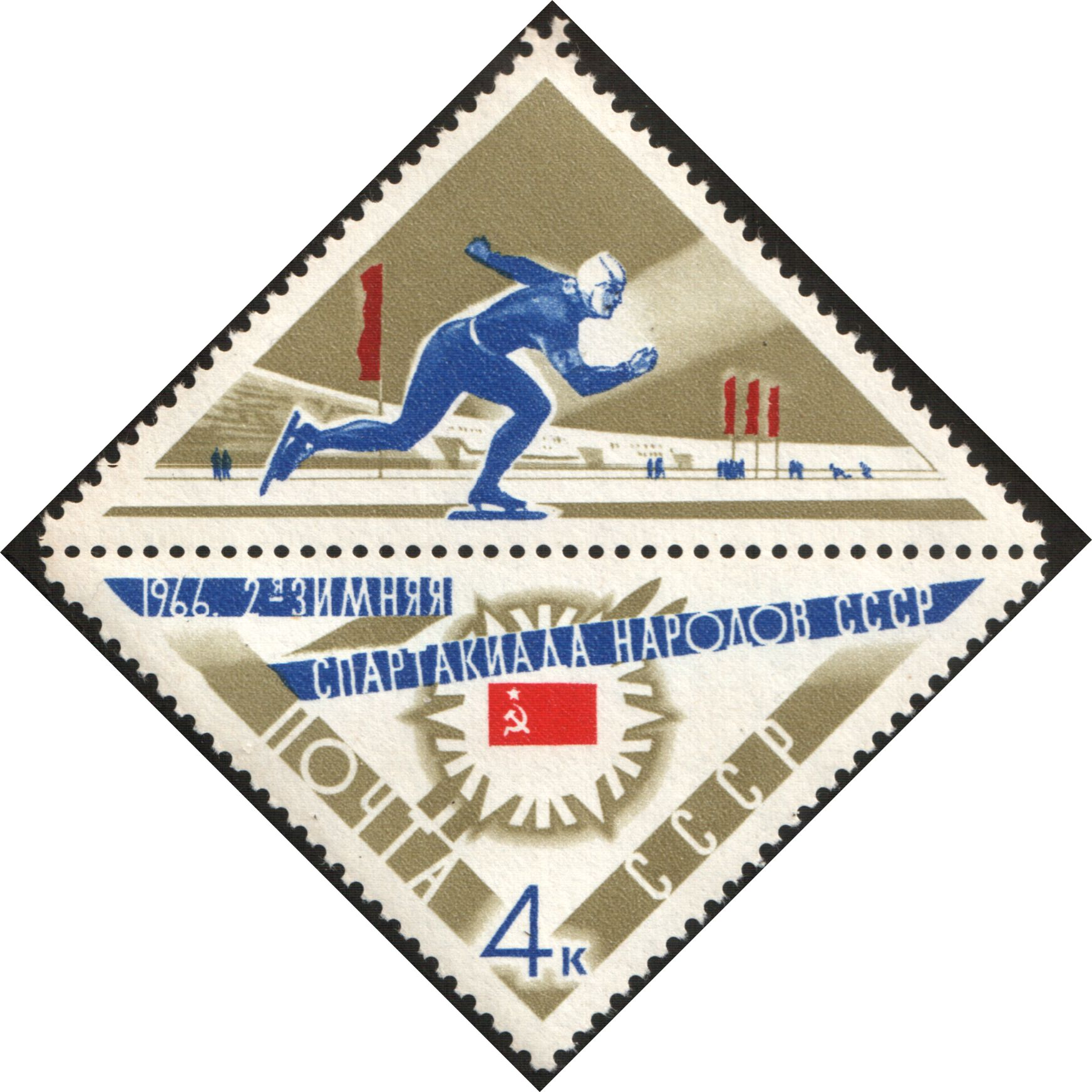 Stamp of USSR: Emblem and Skater. Issue: Second Winter Spartacist Games, Sverdlovsk.